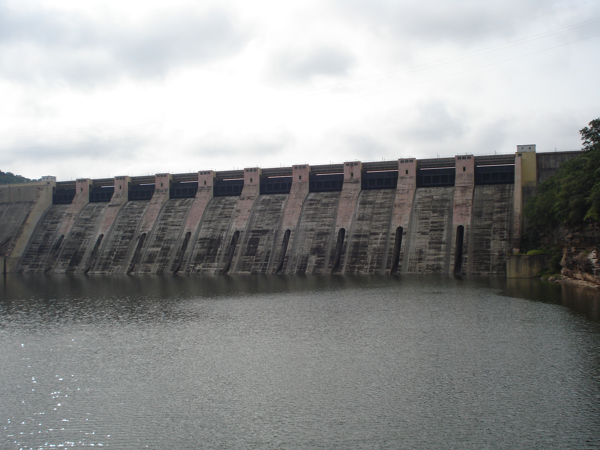 Gandhi Sagar Dam in Mandsaur district Madhya Pradesh, India